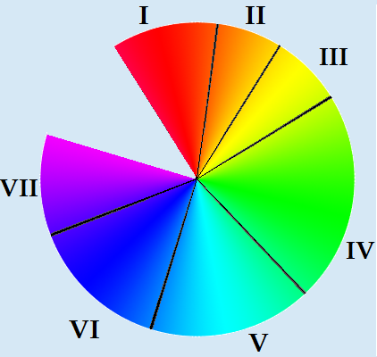 7 Colours of the Rainbow